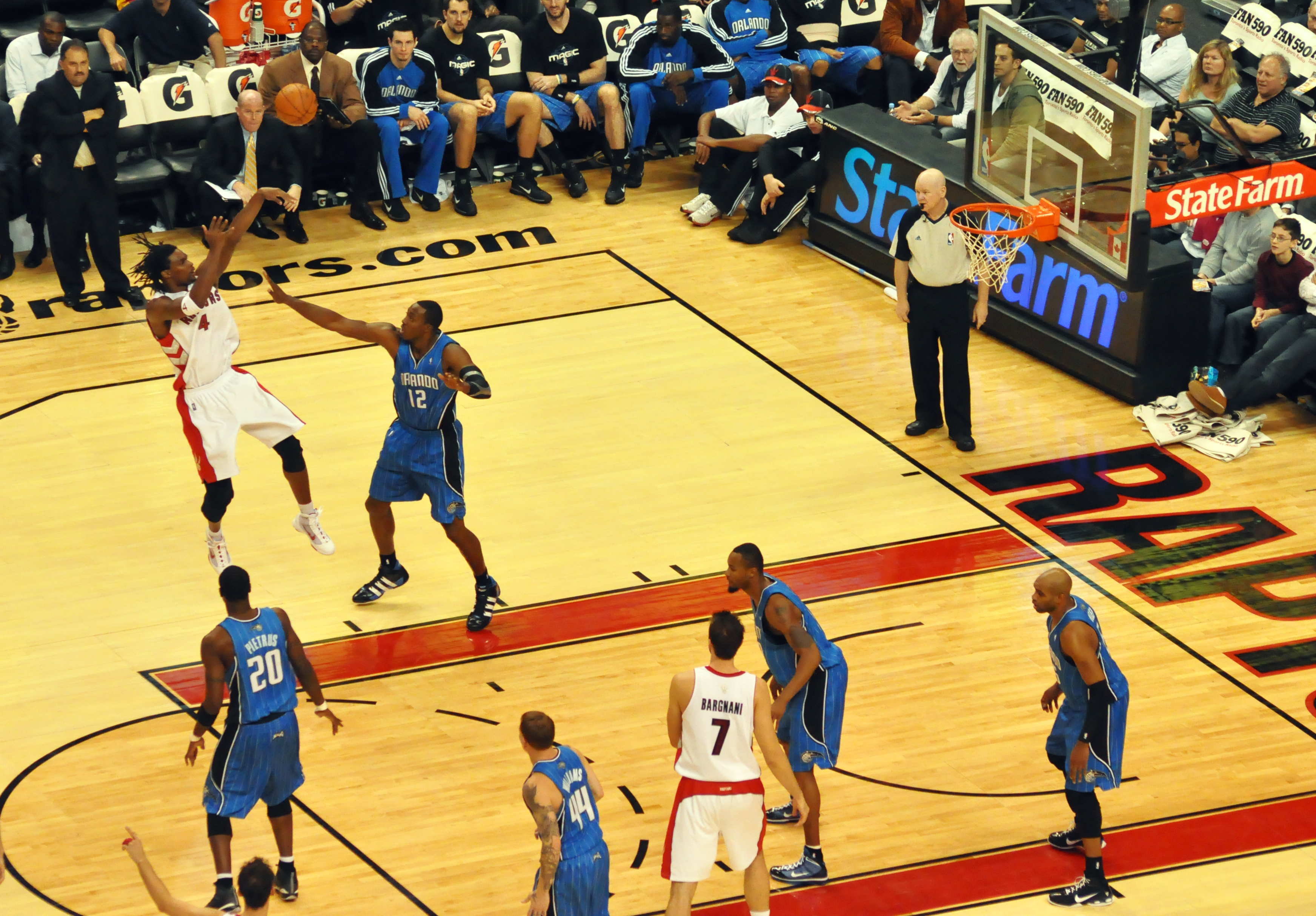 Chris Bosh midrange jumper Toronto Raptors